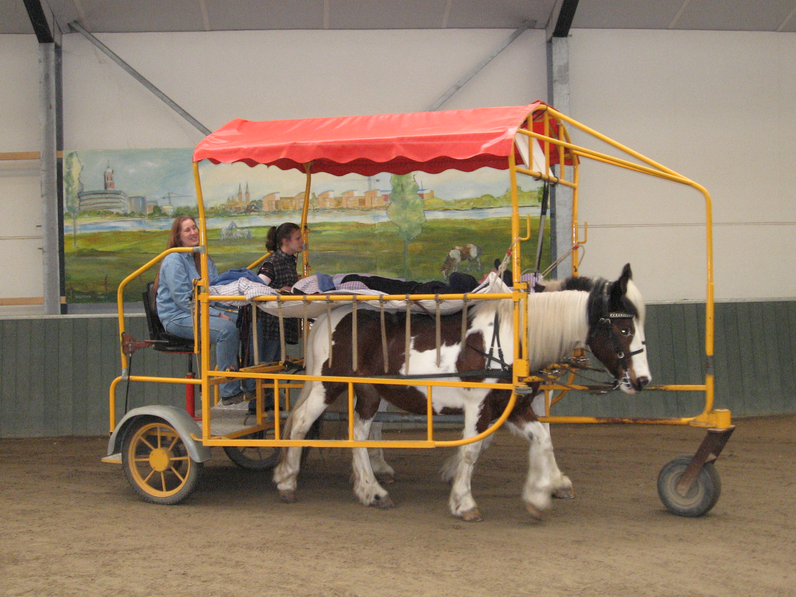 Horse drawn litter of a style used formerly as a battlefield ambulance, now as hippotherapy.